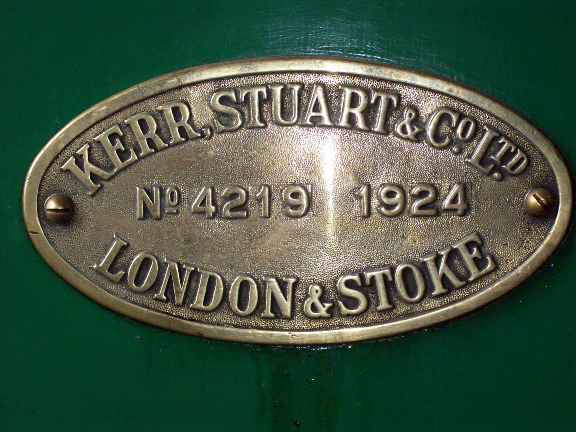 Works plate of Melior, SKLR